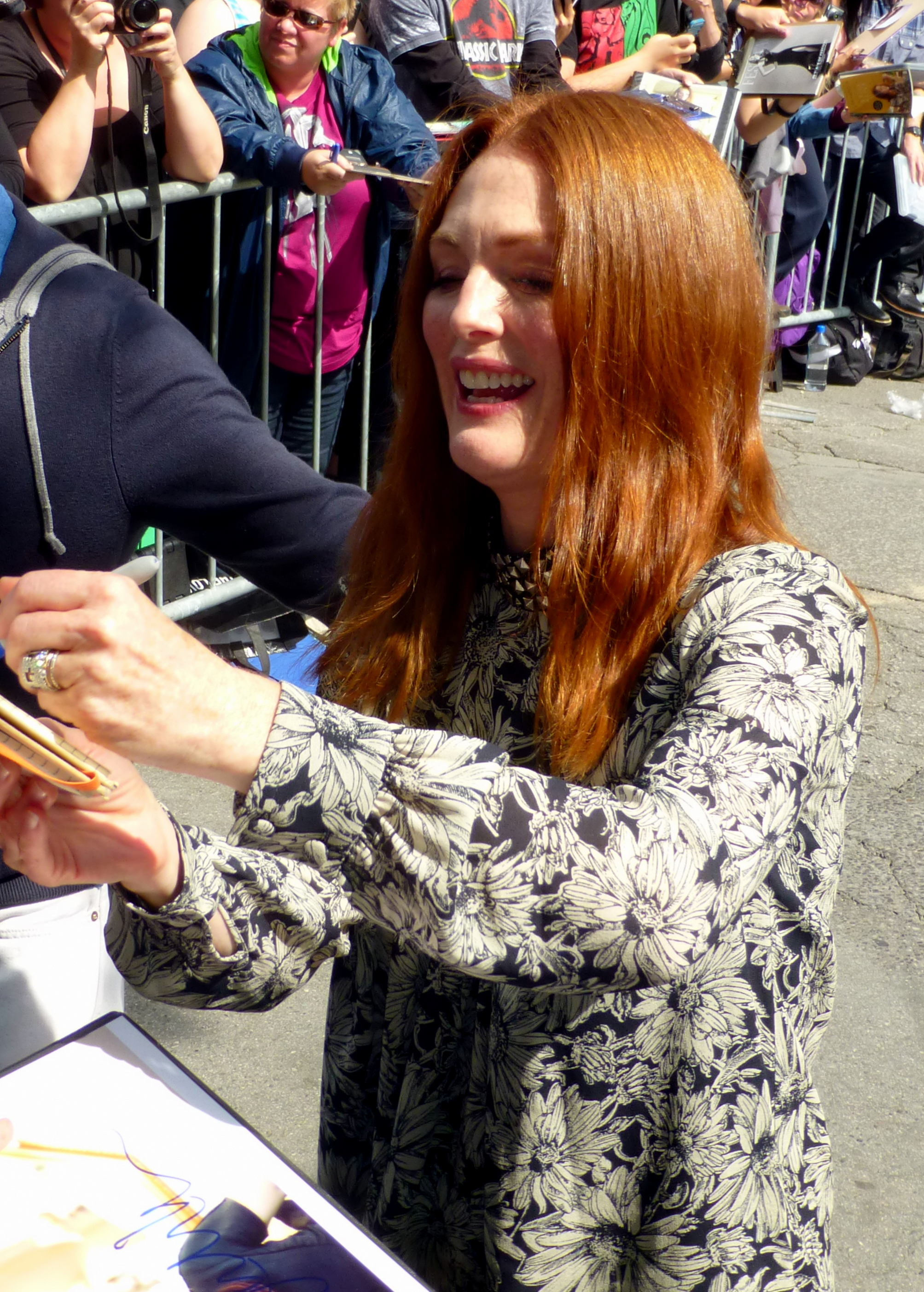 Julianne Moore at the Lightbox before The Conversation with... , 2015 Toronto Film Festival